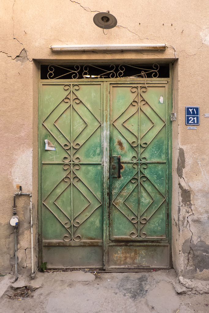 Old door in the Al Najada district of Doha, Qatar.